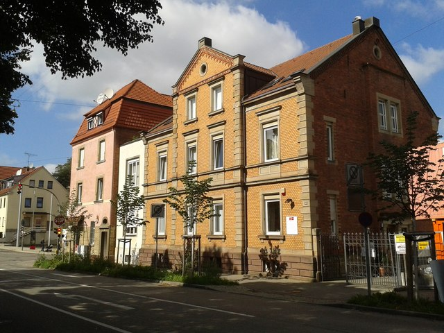 Ludwigsburg - Asperger Straße 48